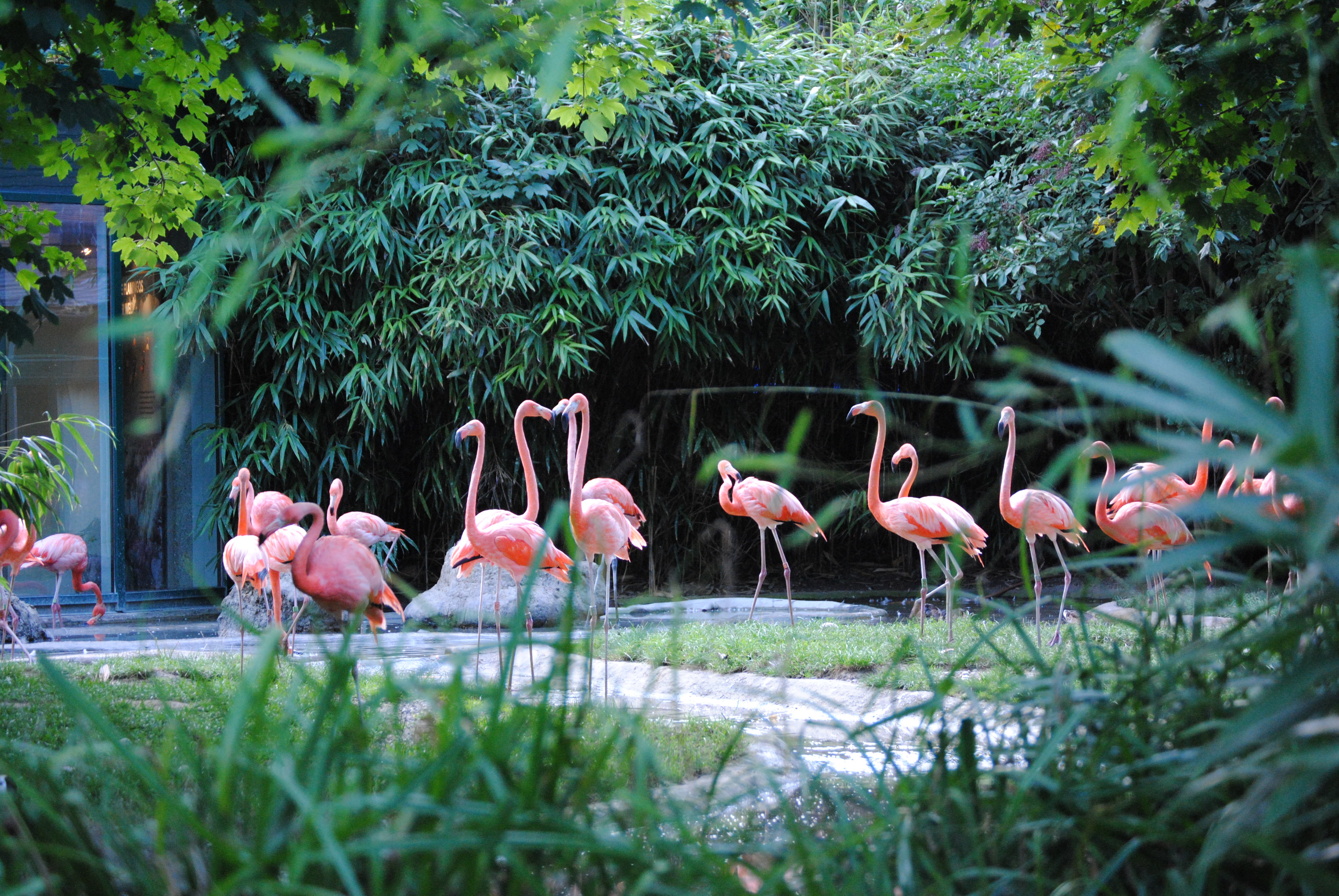 A group of Flamingos at the Schönbrunn Zoo in Vienna, Austria